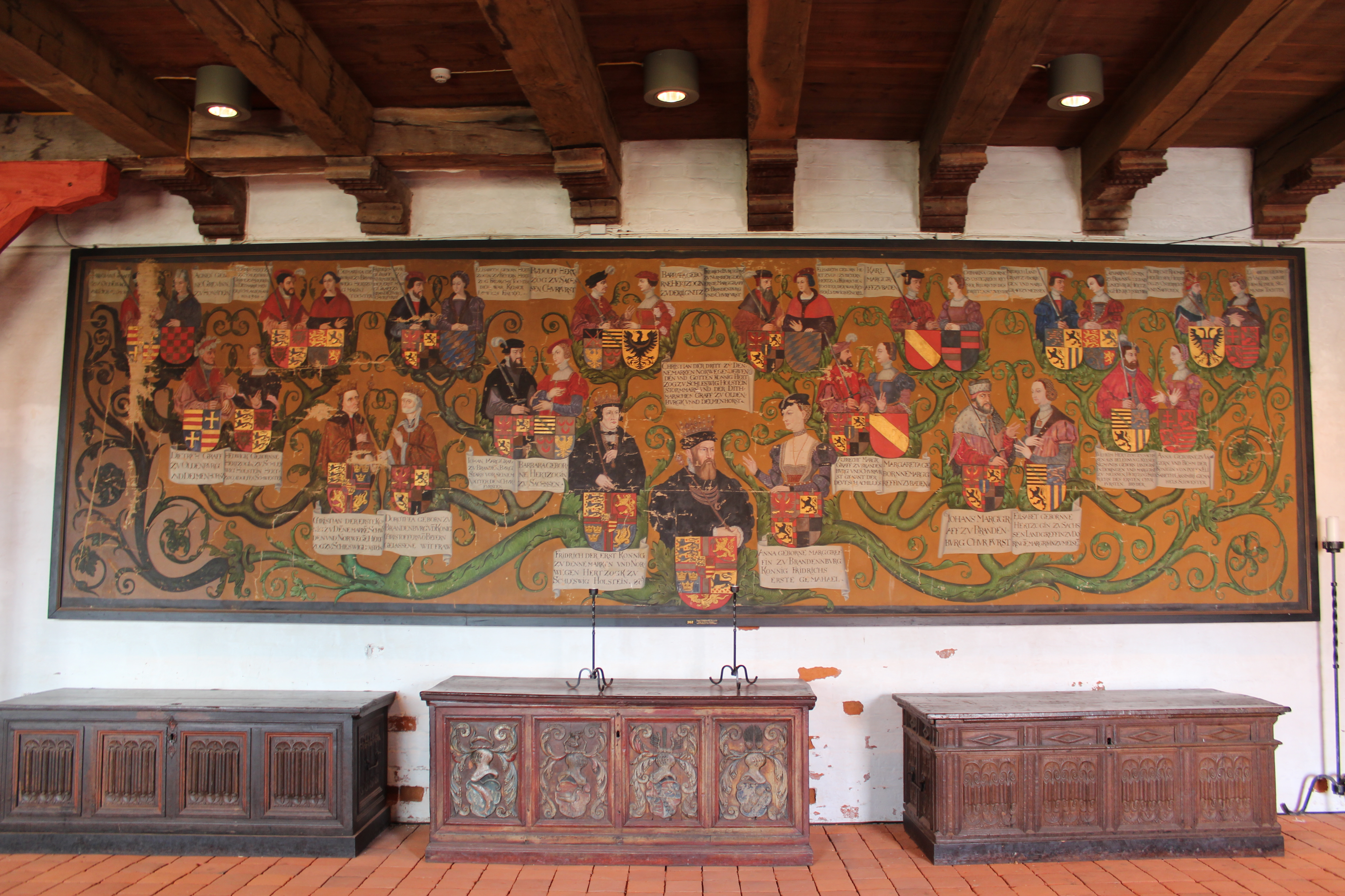 Ahnentafel of King Christian III of Denmark and Norway, Nyborg Castle, Funen, Denmark